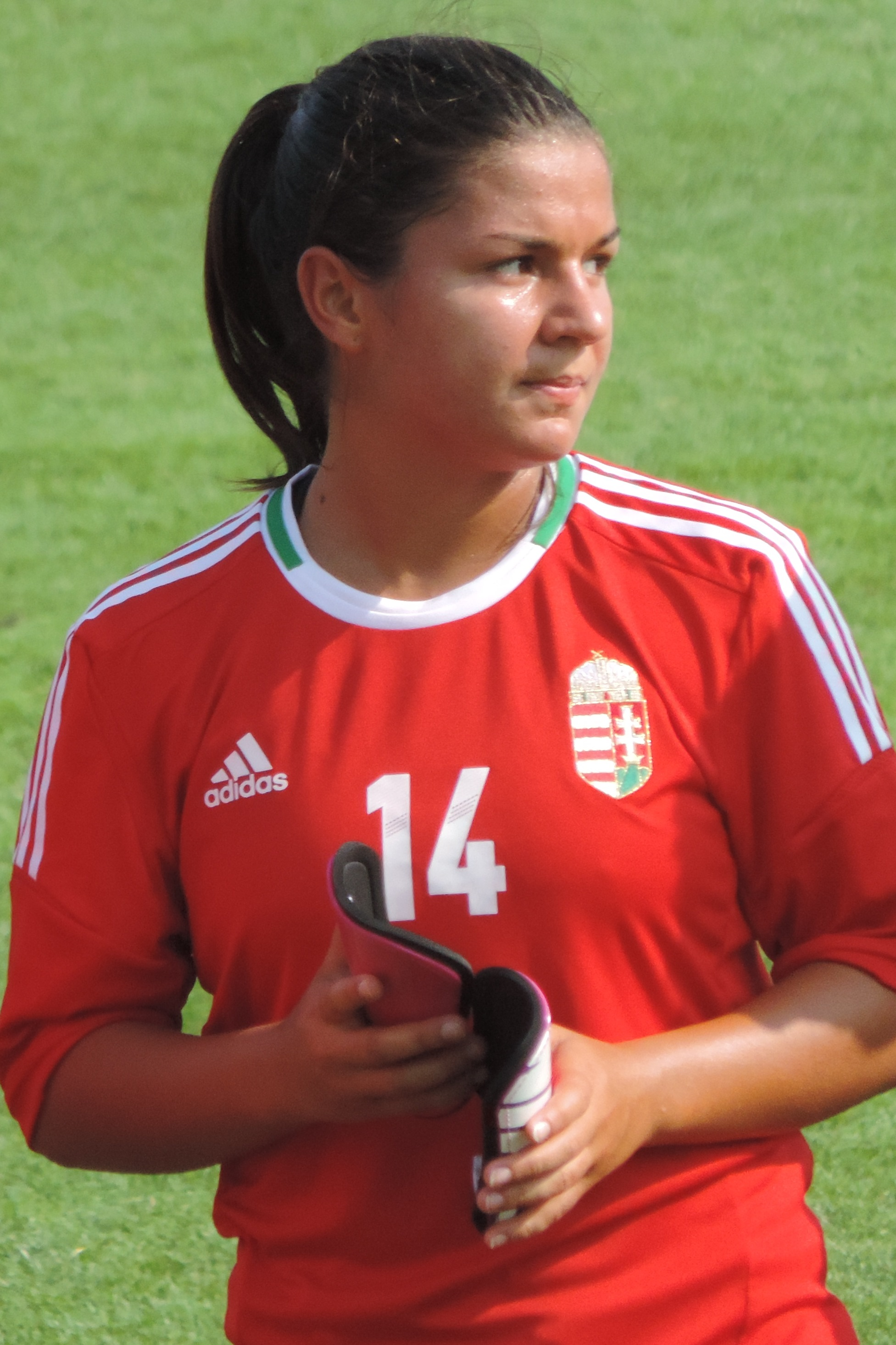 Evelin Fenvyesi Hungarian international football player